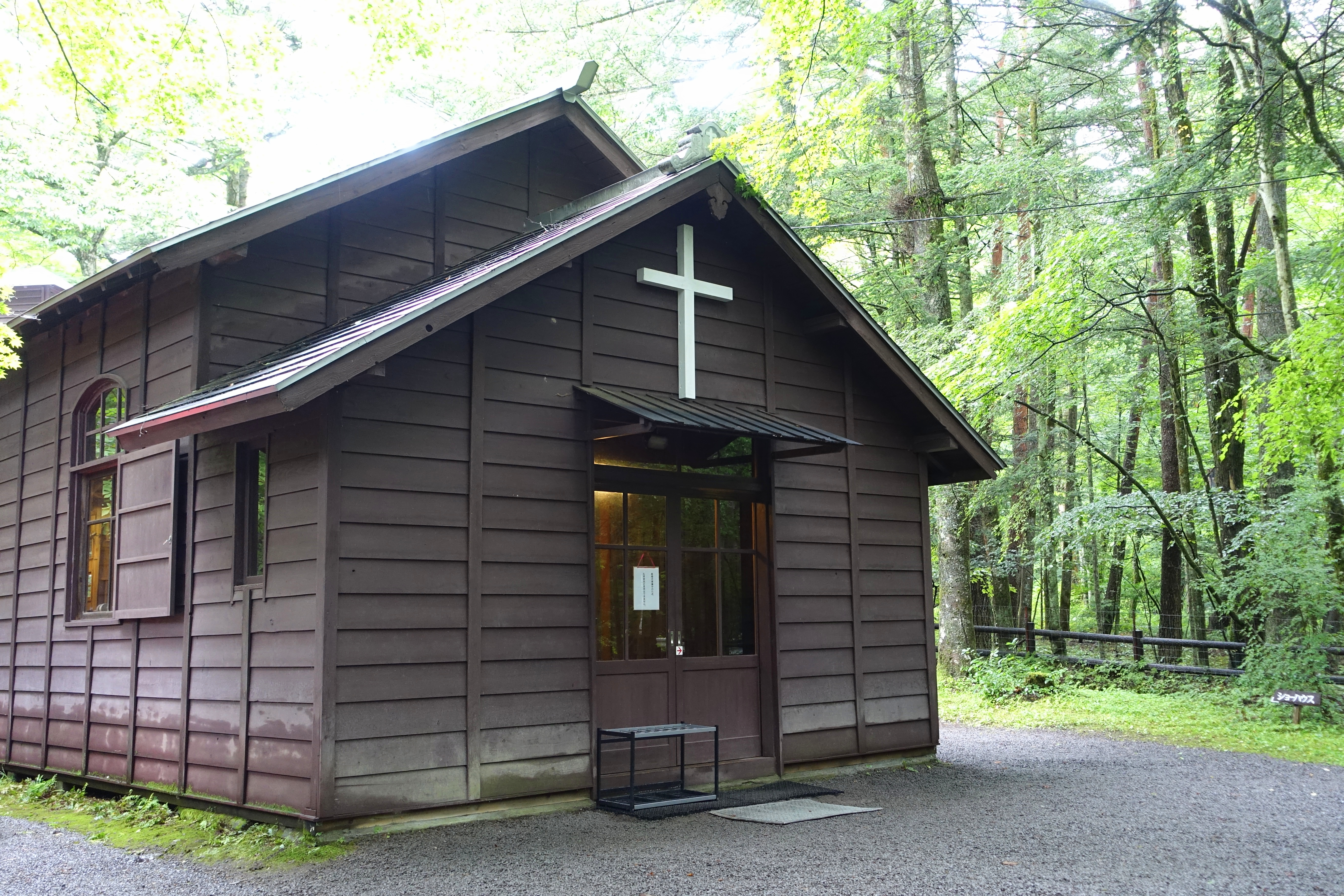 Shaw memorial chapel - Karuizawa, Nagano, Japan.